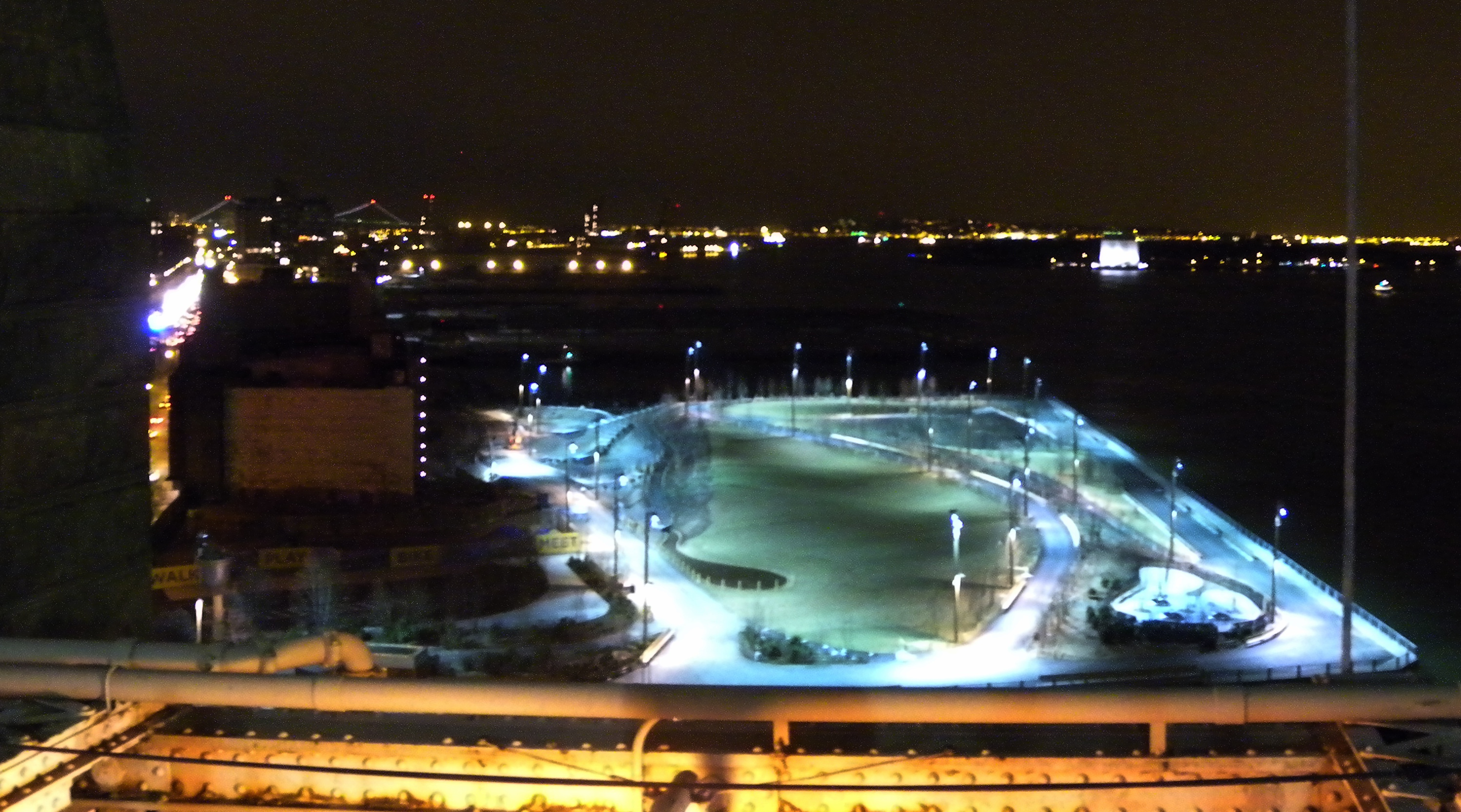 Looking southwest and down from Brooklyn Bridge, at Pier 1 of Brooklyn Bridge Park under construction at night. Headlights on BQE are at far left with Narrows Bridge far beyond that. Brooklyn Battery Tunnel vent is illuminated at upper right, with Governors Island behind it.